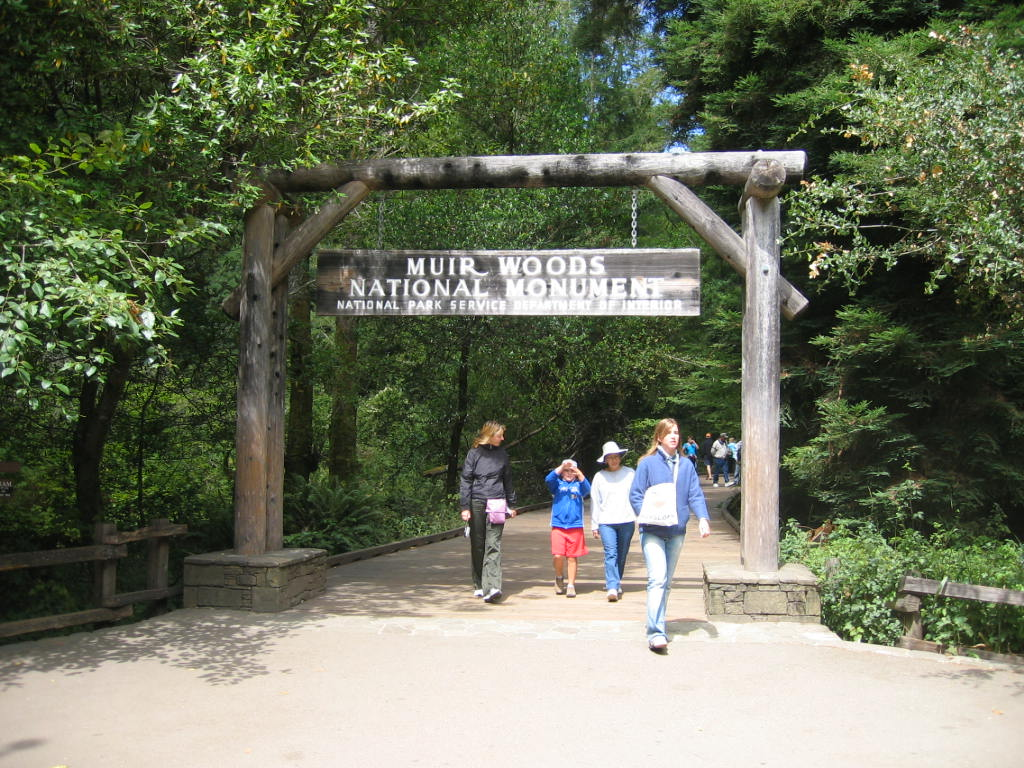 Main entrance to Muir Woods National Monument.